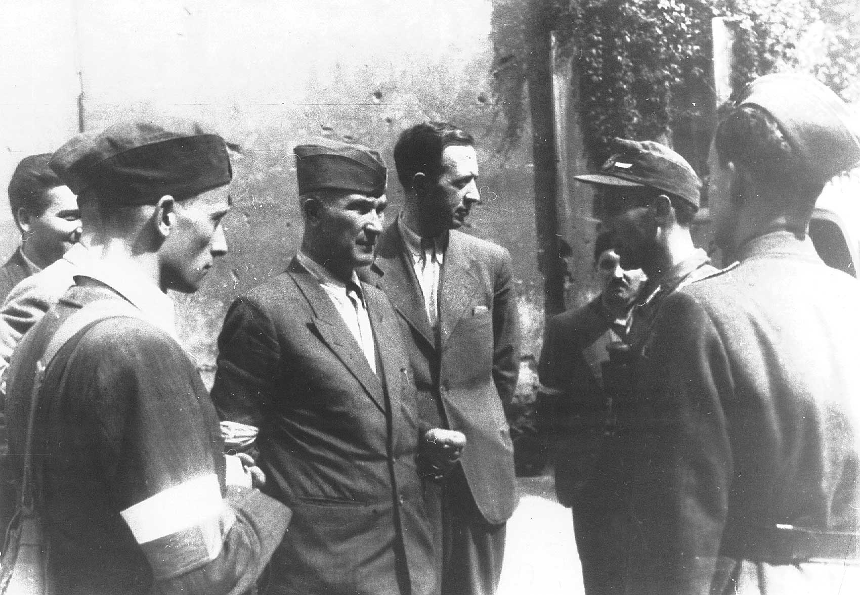 Warsaw Uprising: General Antoni Chruściel "Monter" (in the middle) head of Warsaw District of AK and his Bureau of Information and Propaganda officers outside of Main Post Office building at Napoleon Square on August 10 1944. From the left: Zygmunt Ziółek "Sawa" (in a back) with Jan Rzepecki "Wolski" in front of him obscured by Lech Sadowski "Wasyl" (in front on the left). Next one is General Chruściel and to the right of him Tadeusz Żenczykowski "Kania".